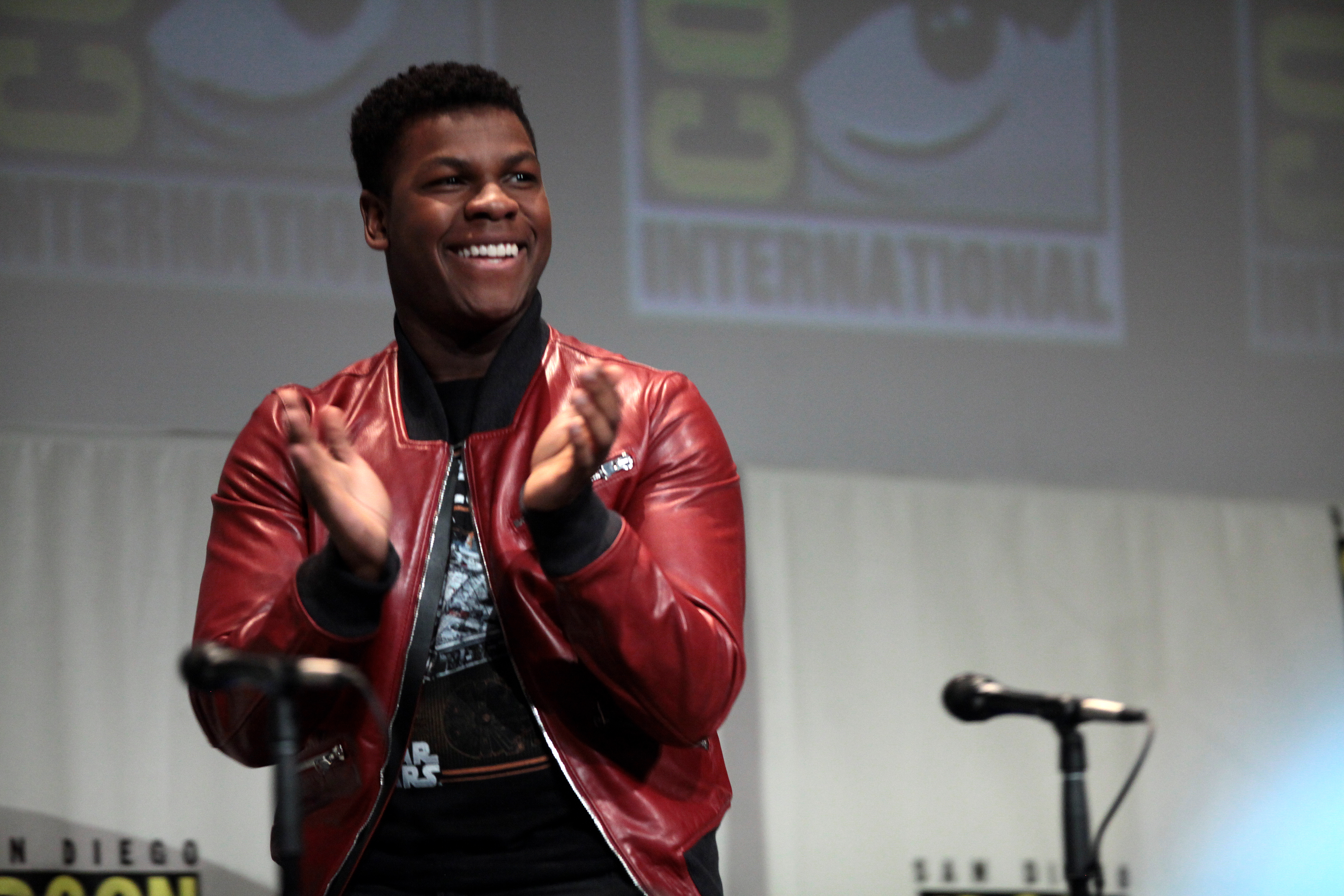 John Boyega speaking at the 2015 San Diego Comic Con International, for "Star Wars: The Force Awakens", at the San Diego Convention Center in San Diego, California.